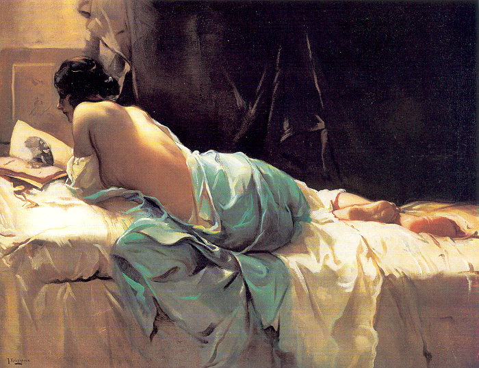 nude-model-reading